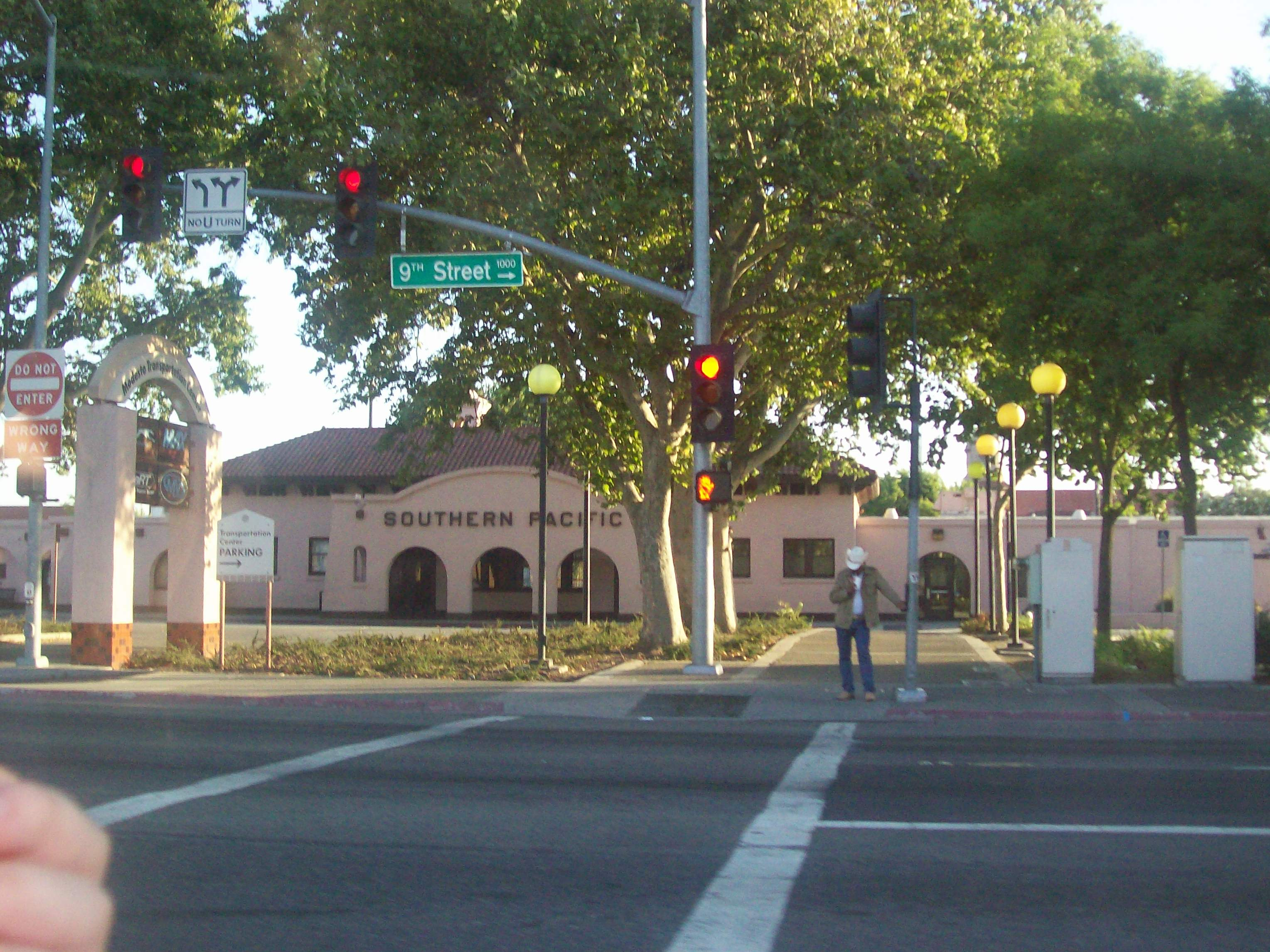 Modesto Transportation Center in October 2009